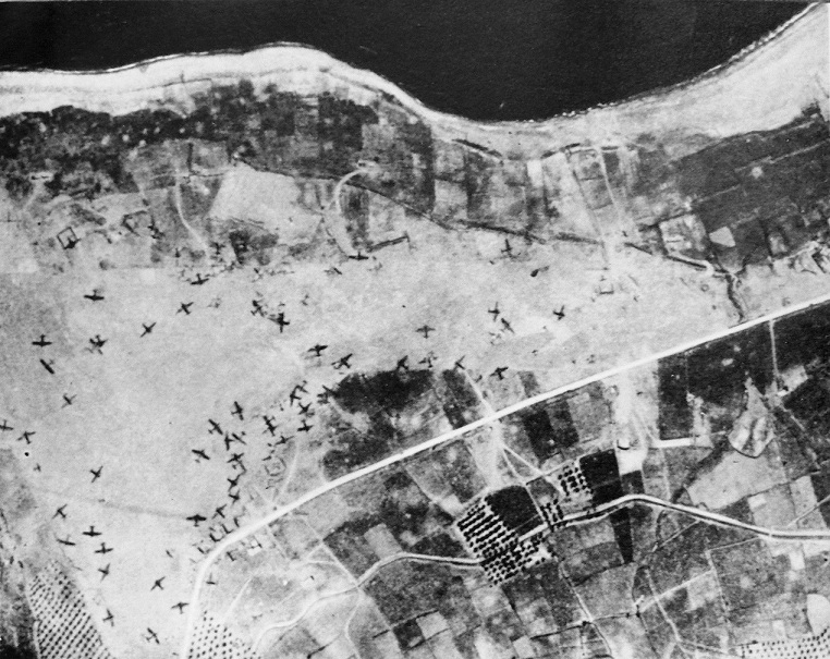 Maleme airfield, Crete, showing many Junkers Ju 52s crash-landed and others wrecked.